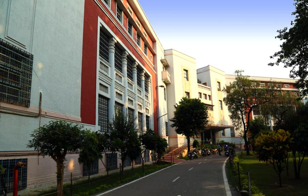 Exterior of the Museum Building